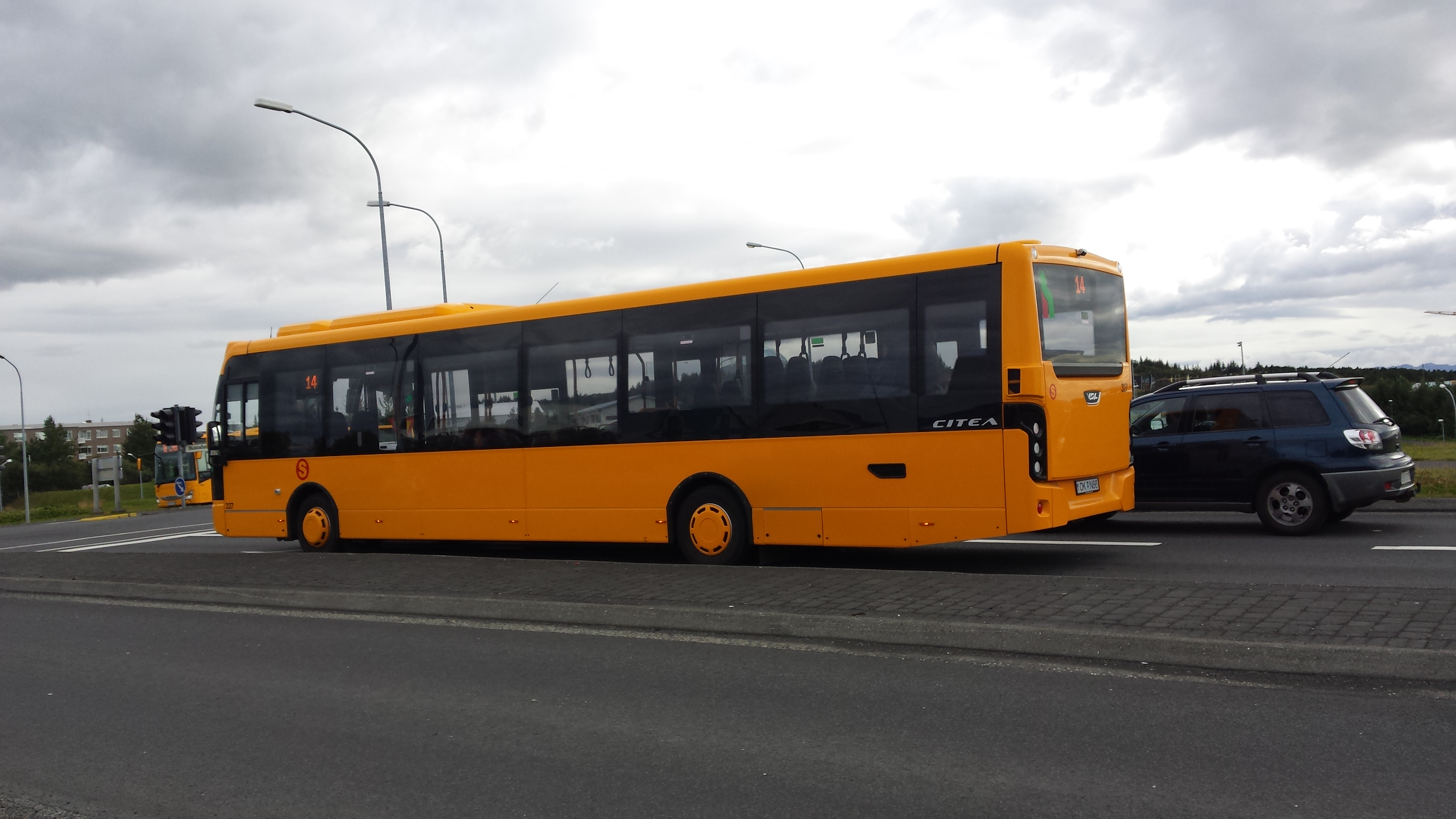 VDL Citea bus in Reykjavík on Gamla Hringbraut street